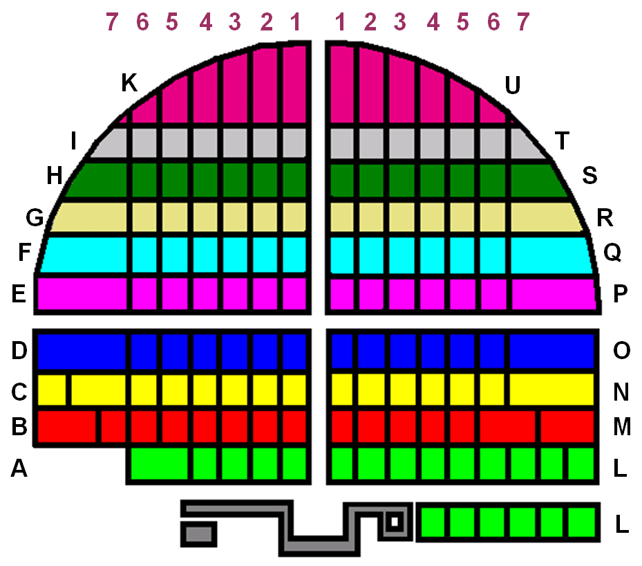 squares of Mannheim in Germany